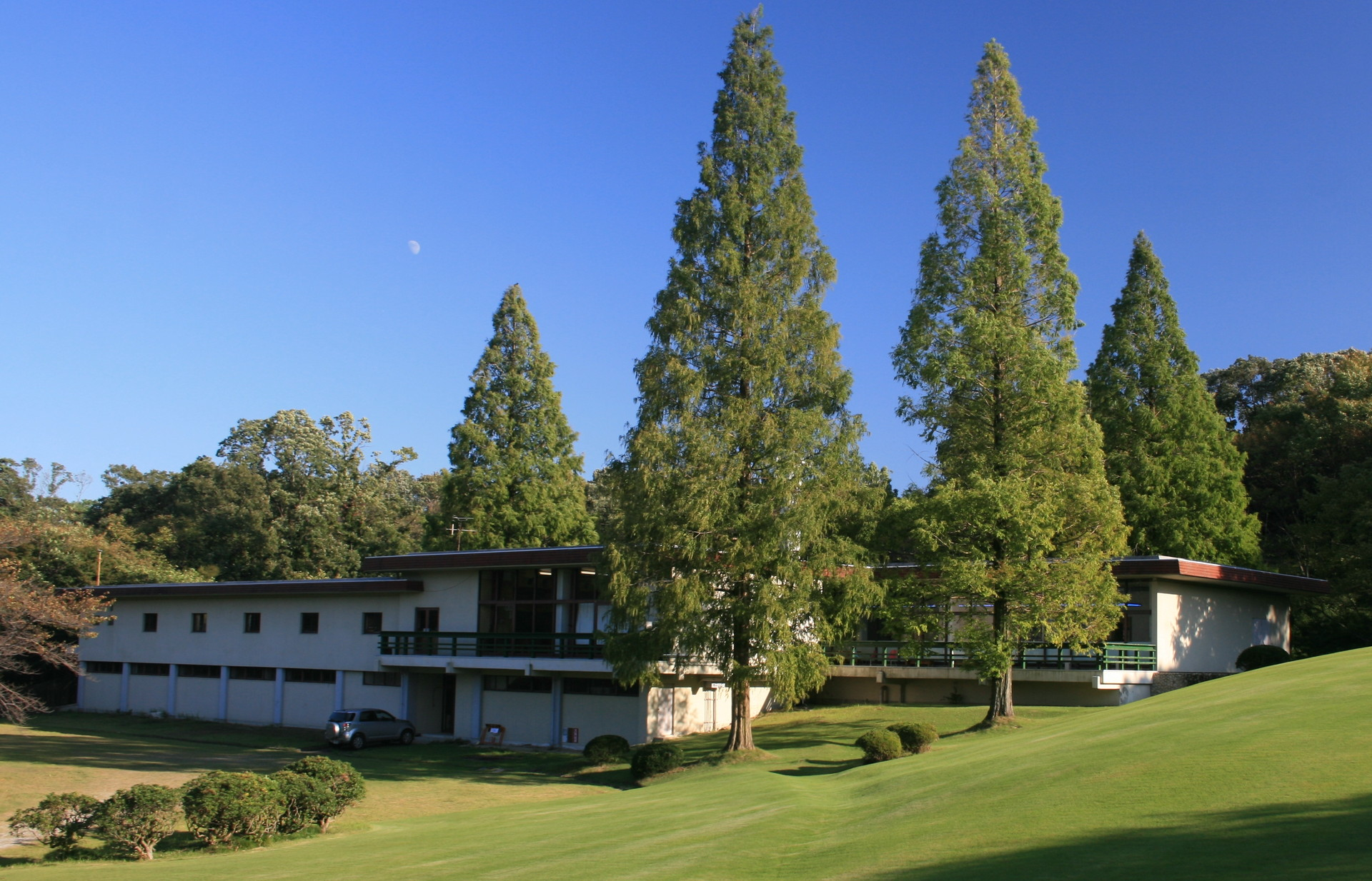 Pavilion and Metasequoia in Forest park of Aichi Prefecture